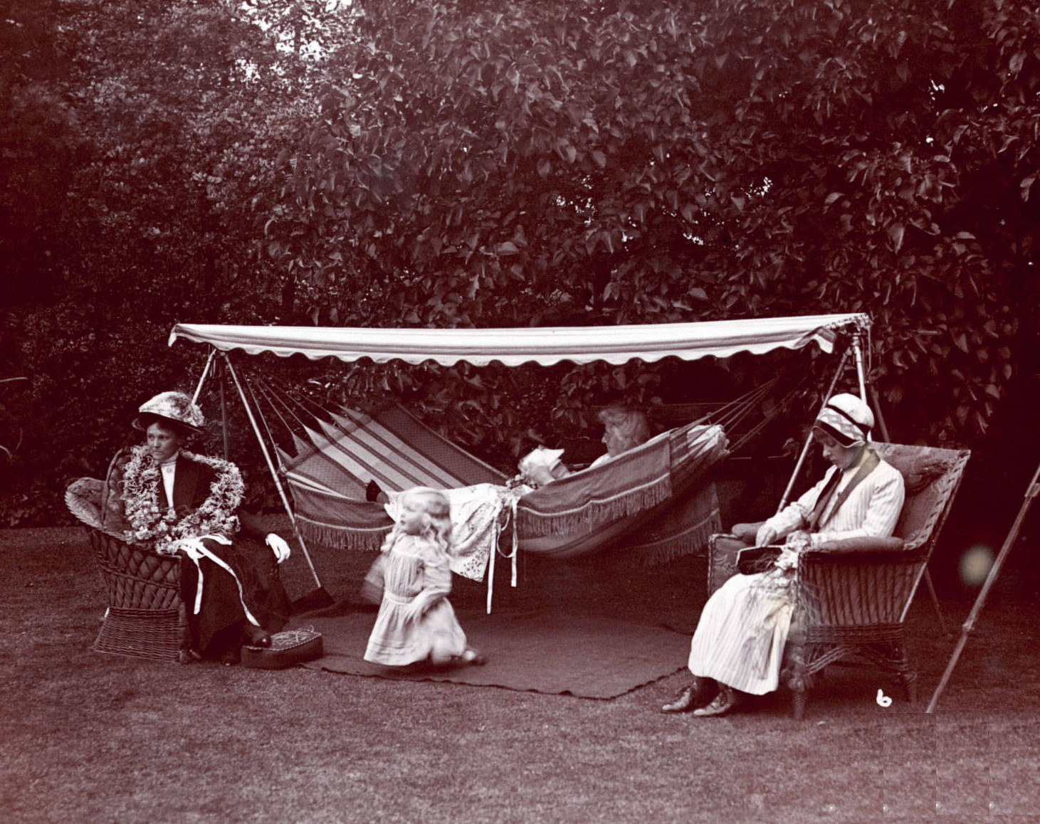 L to R: Edith Marian Begbie, three year old Paul Lamartine Yates (Roses's son), Mrs Gertrude Wilkinson Florence Mcfarlane (right) at Dorset Hall, Merton Park c.1912 Florence Mcfarlane (“Dundee’s hungerstriker”.) and Mrs Begbie were sisters